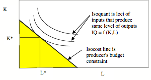 Isoquant and isocost curves